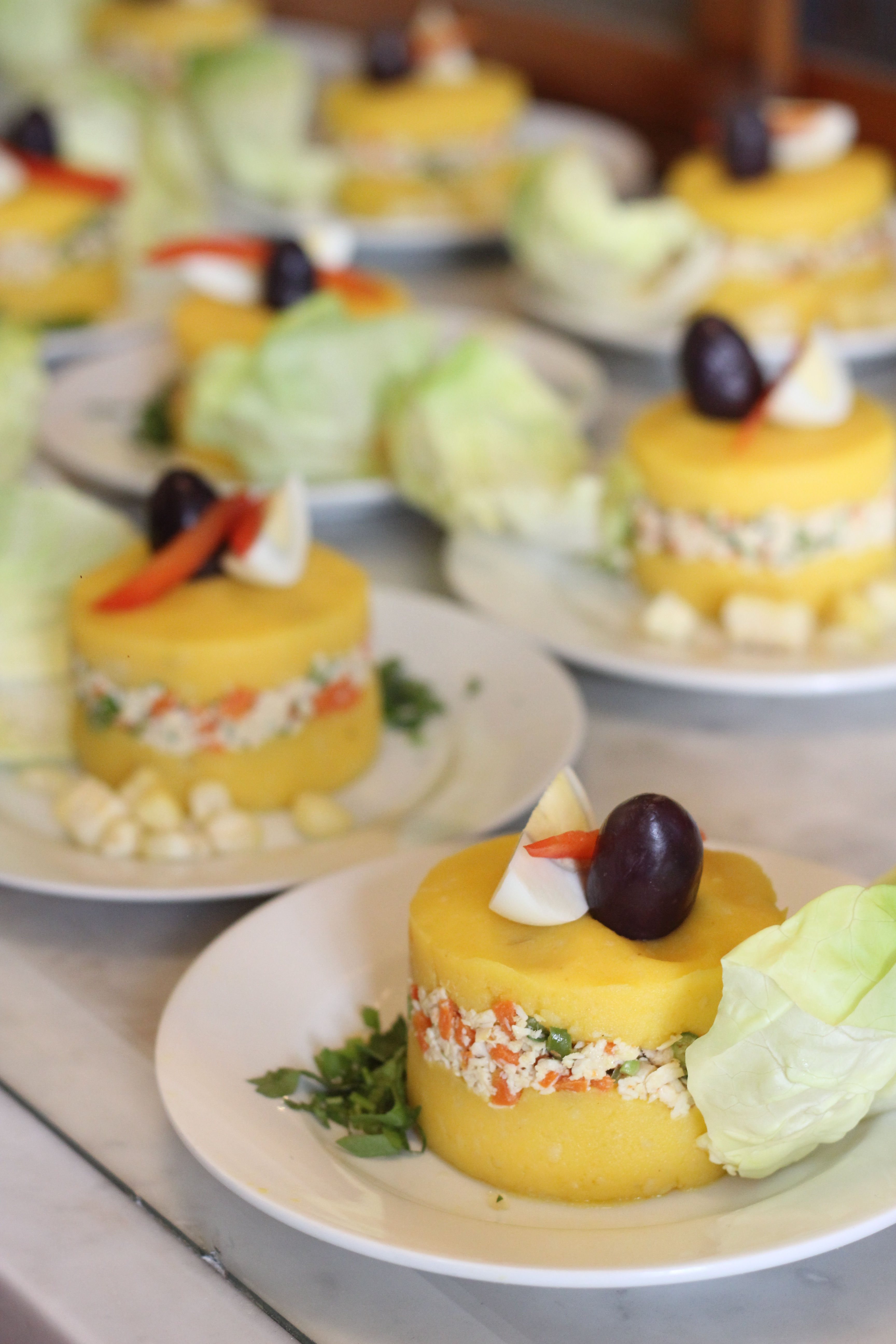 Causa Rellena (Perú).